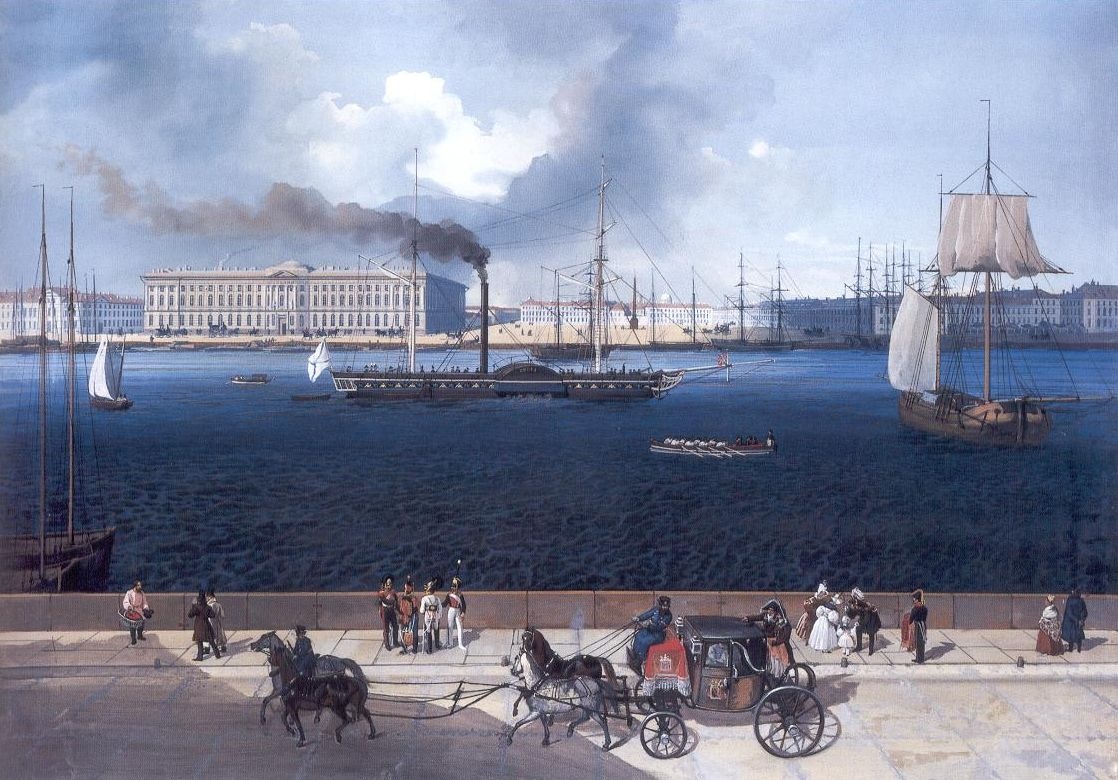 "The entrance of the Prussian crown prince and princess on the steamship "Ishora" in St. Petersburg in June 1834". Gouache